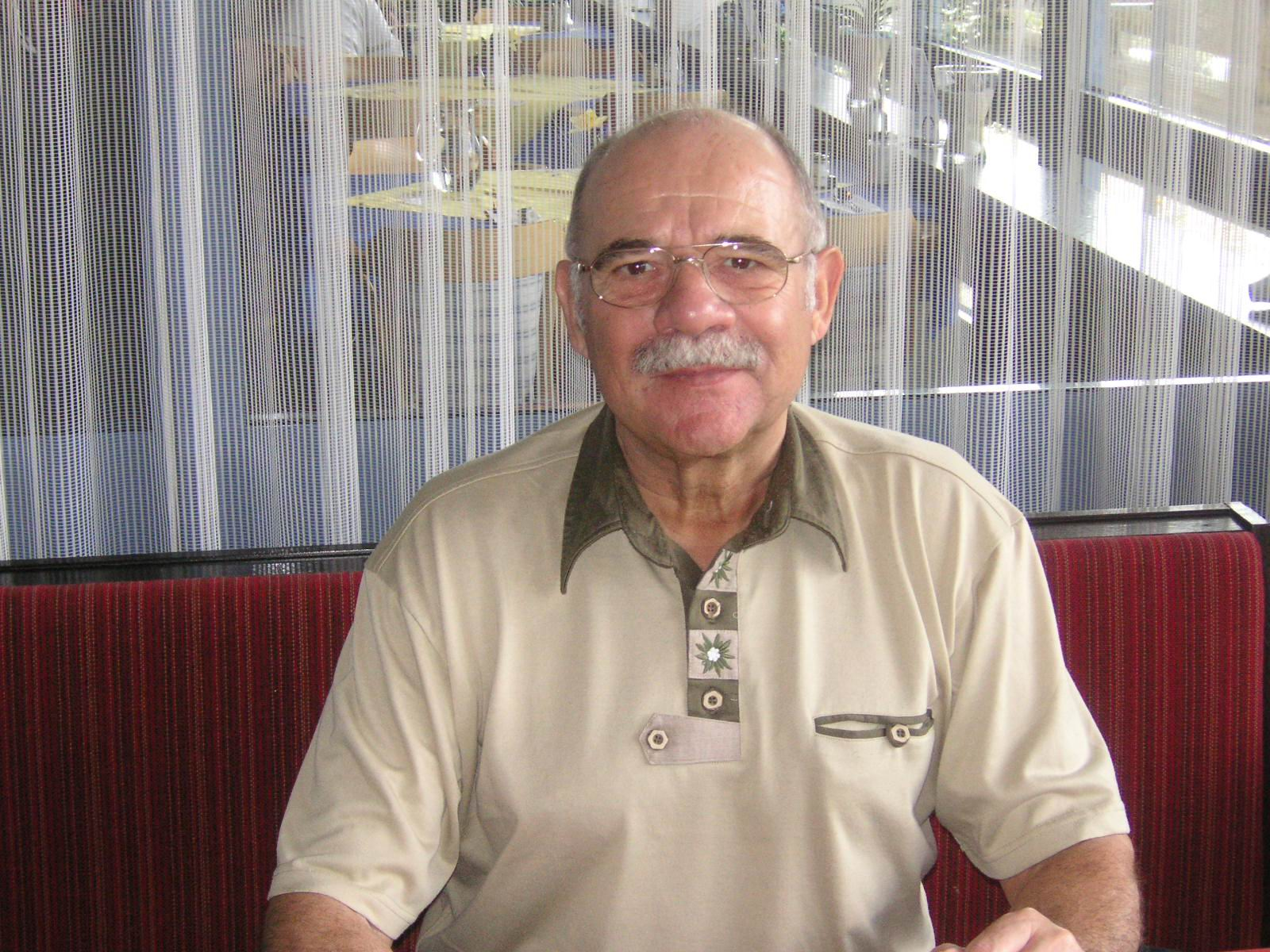 Jürgen Storost